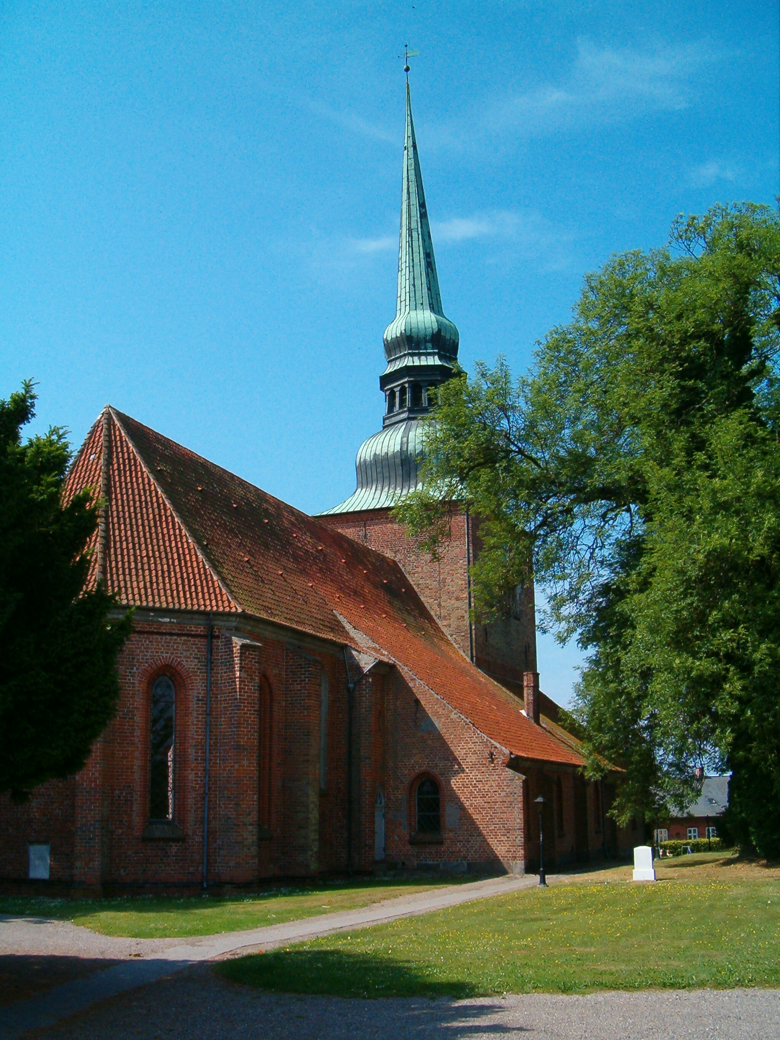 Nysted kirke fra øst Church of Nysted from the east Made by: Erik Damskier 21:32, 13 July 2006 (UTC)